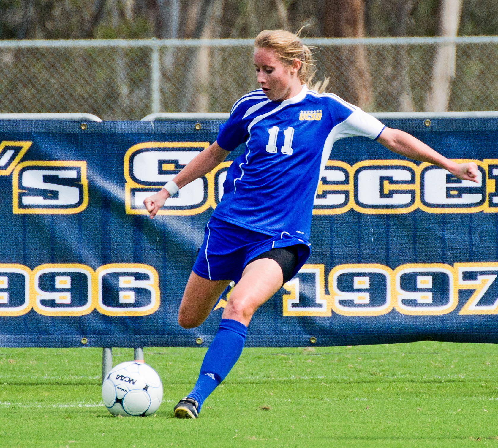 Courtney Capobianco, University of California, San Diego soccer team.